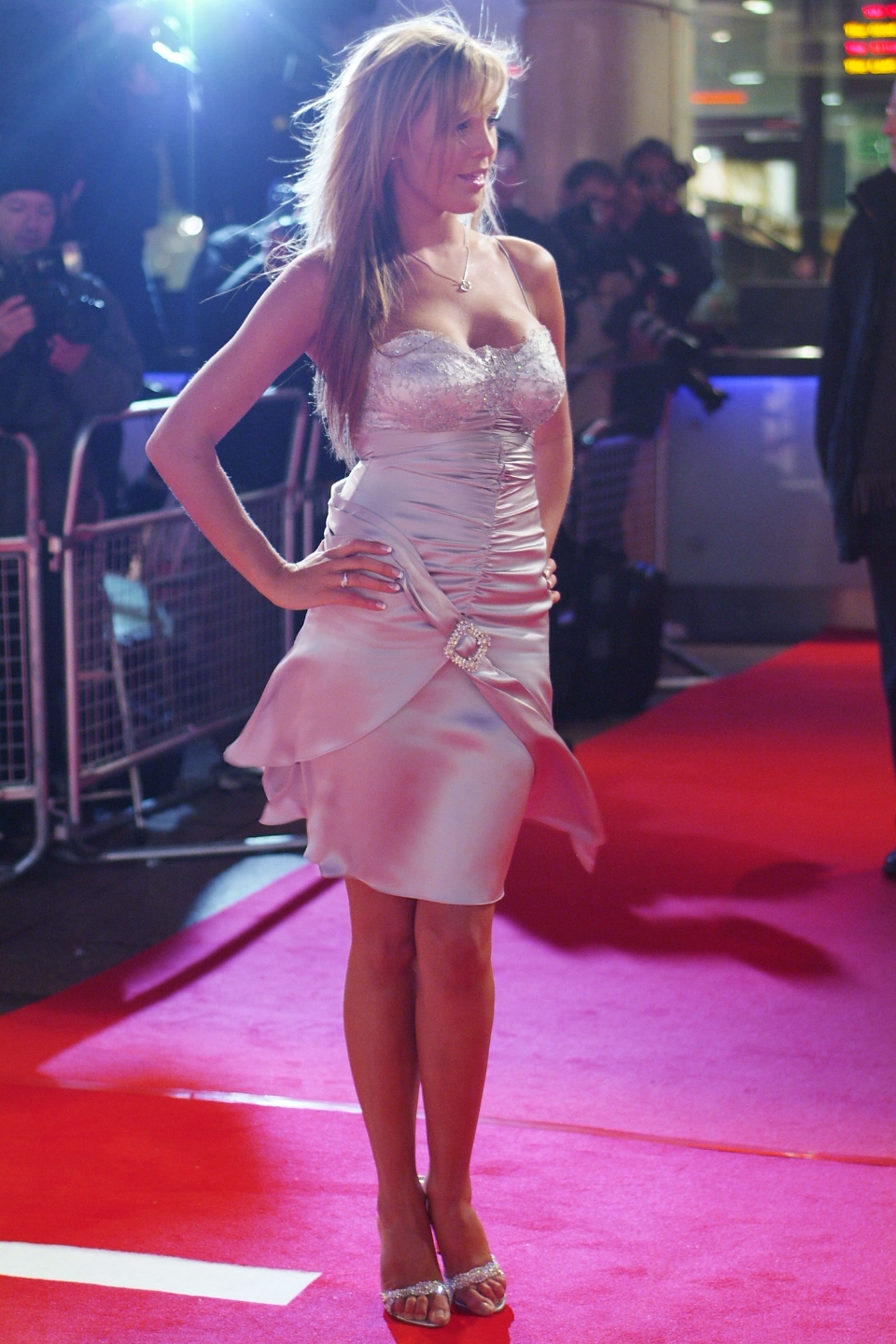 Danielle Lloyd at the I want Candy London Movie Premiere